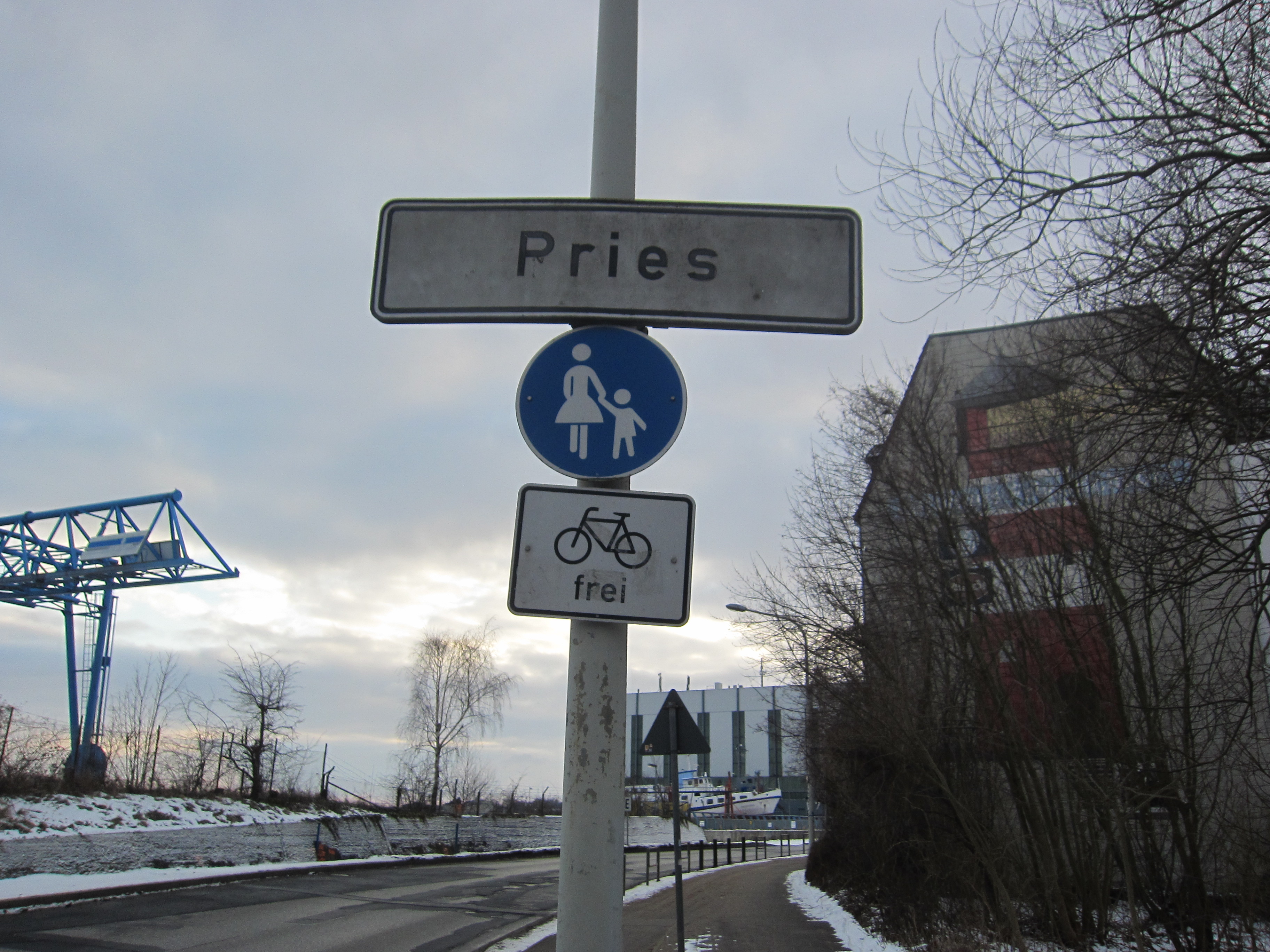 White district limit sign "Pries" in Kiel